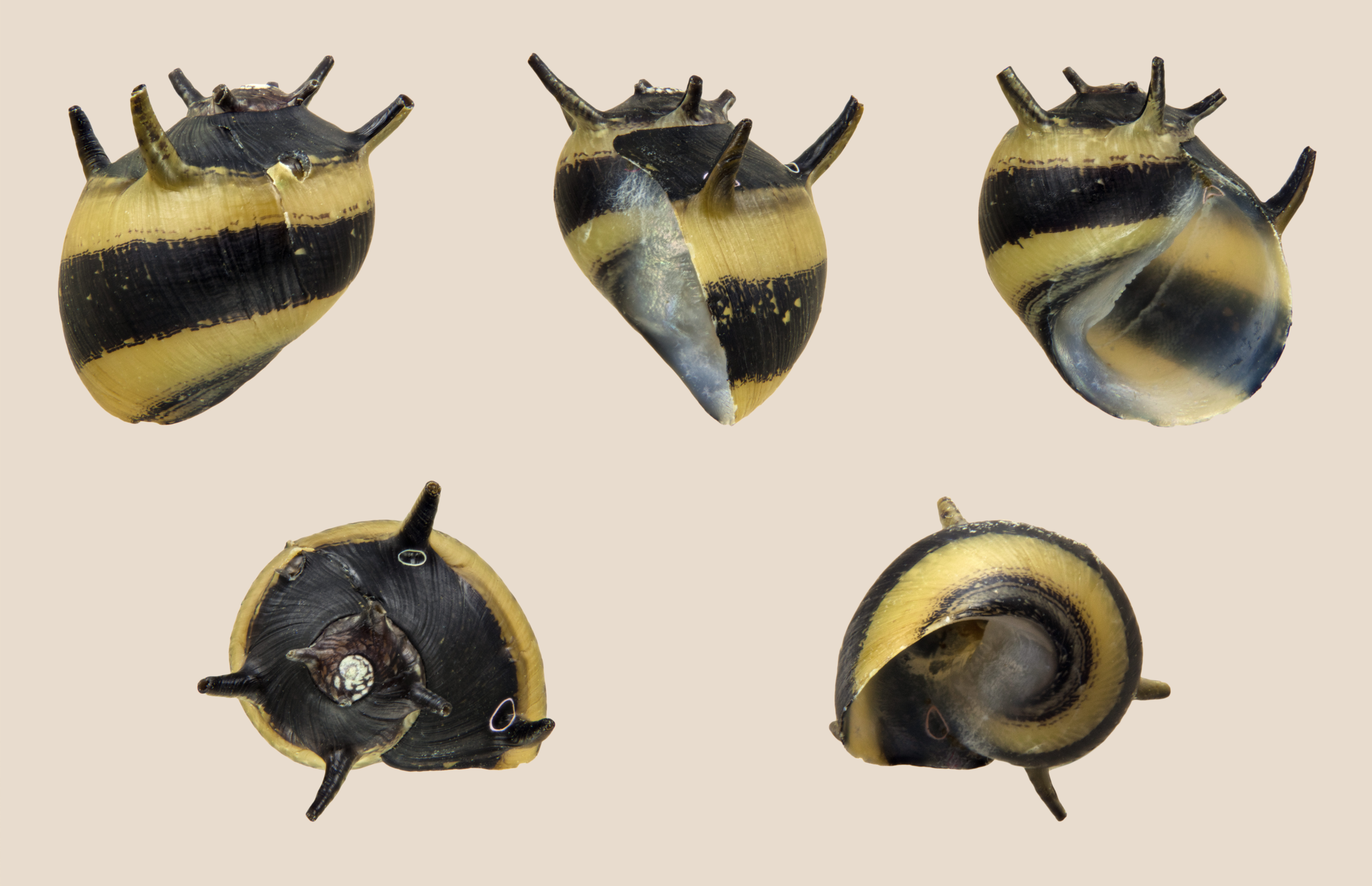 Clithon diadema Récluz, 1841, Crown Nerite, banded form; Height (without spines) 0.8 cm; Originating from the Philippines; Shell of own collection, therefore not geocoded.